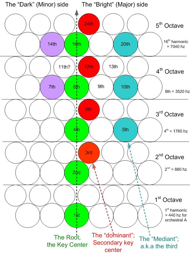 Shows the harmonics of a note in a Wicki-Hayden layout (such as is used in a jammer). This format is good for showing what happens when the keys are folded to make advanced 2-dimensional instruments.